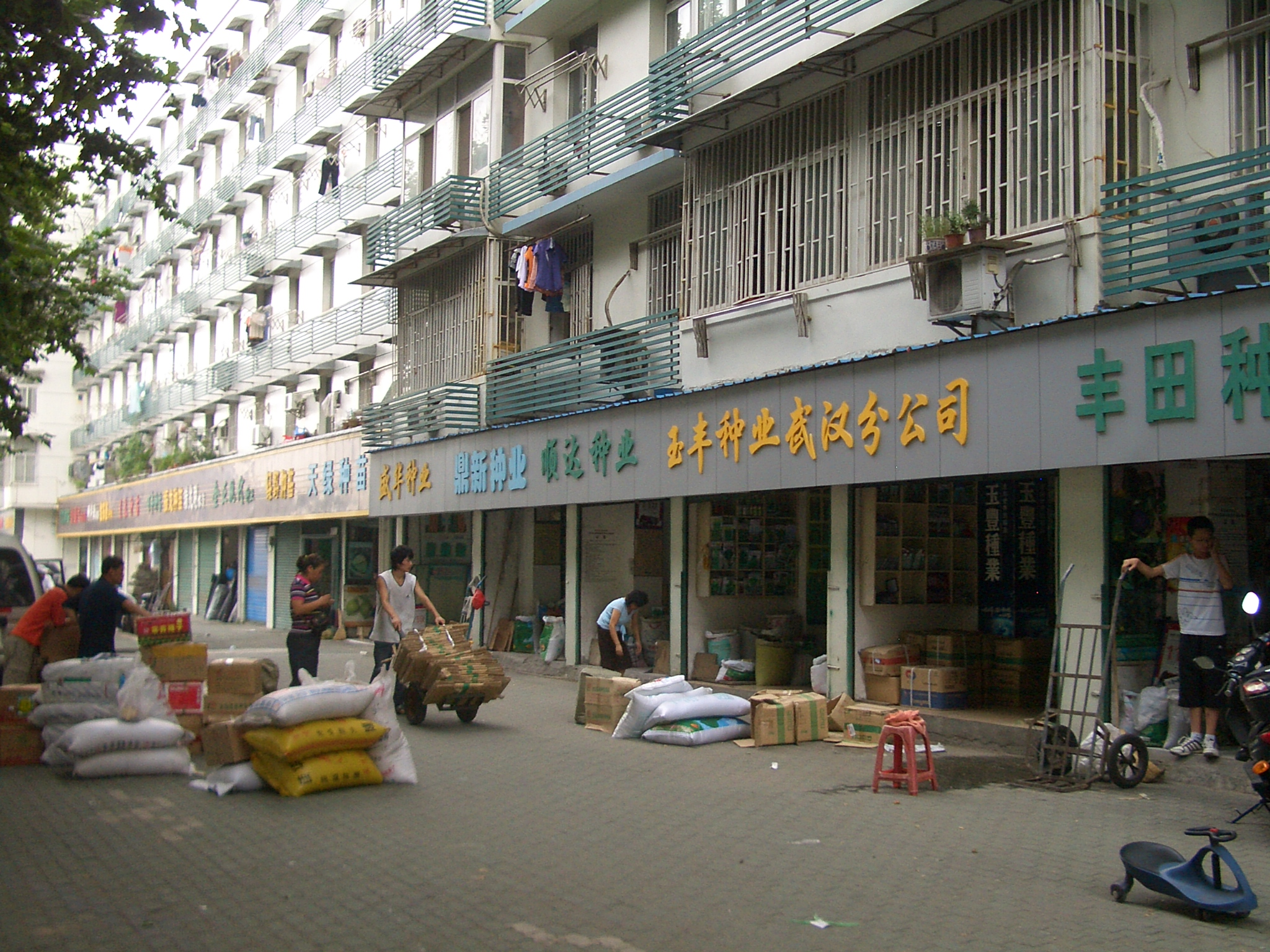 A block of Zhongshan St full of seed shops in central Wuchang. This is on the western side of Zhongshan St, a block or two north of Wuchang Train Station, and opposite a bus station.